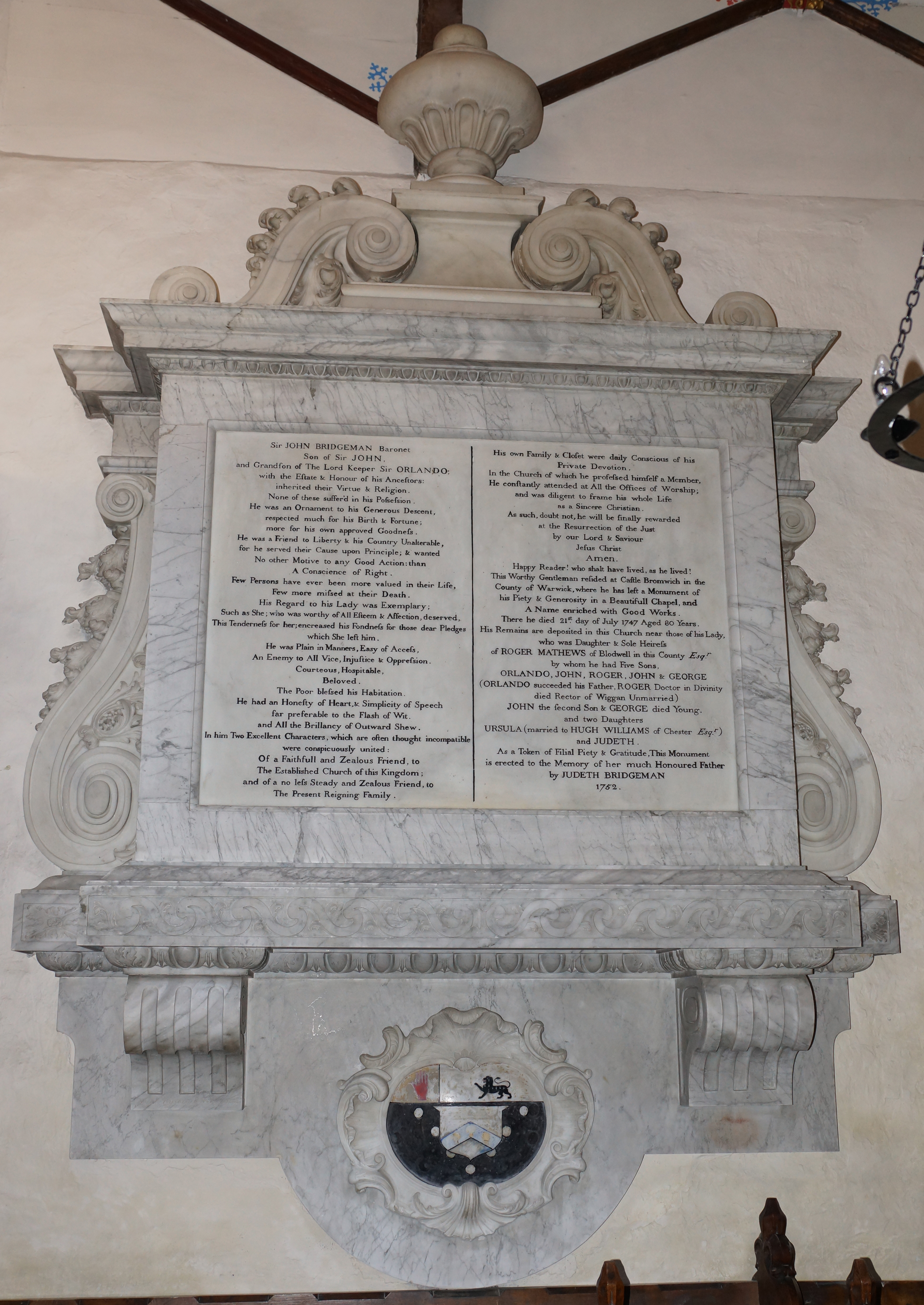 Funeral monument to Sir John Bridgeman, 3rd Baronet of Great Lever (9 August 1667 – 21 July 1747) in the Church of St Michael the Archangel, Llanyblodwel, Shropshire, England. The arms show Bridgeman with the canton of a baronet (Red Hand of Ulster) with an inescutcheon of pretence of Matthews, for his wife, Ursula Matthews, the daughter and sole heiress of Roger Matthews of Blodwell, Shropshire